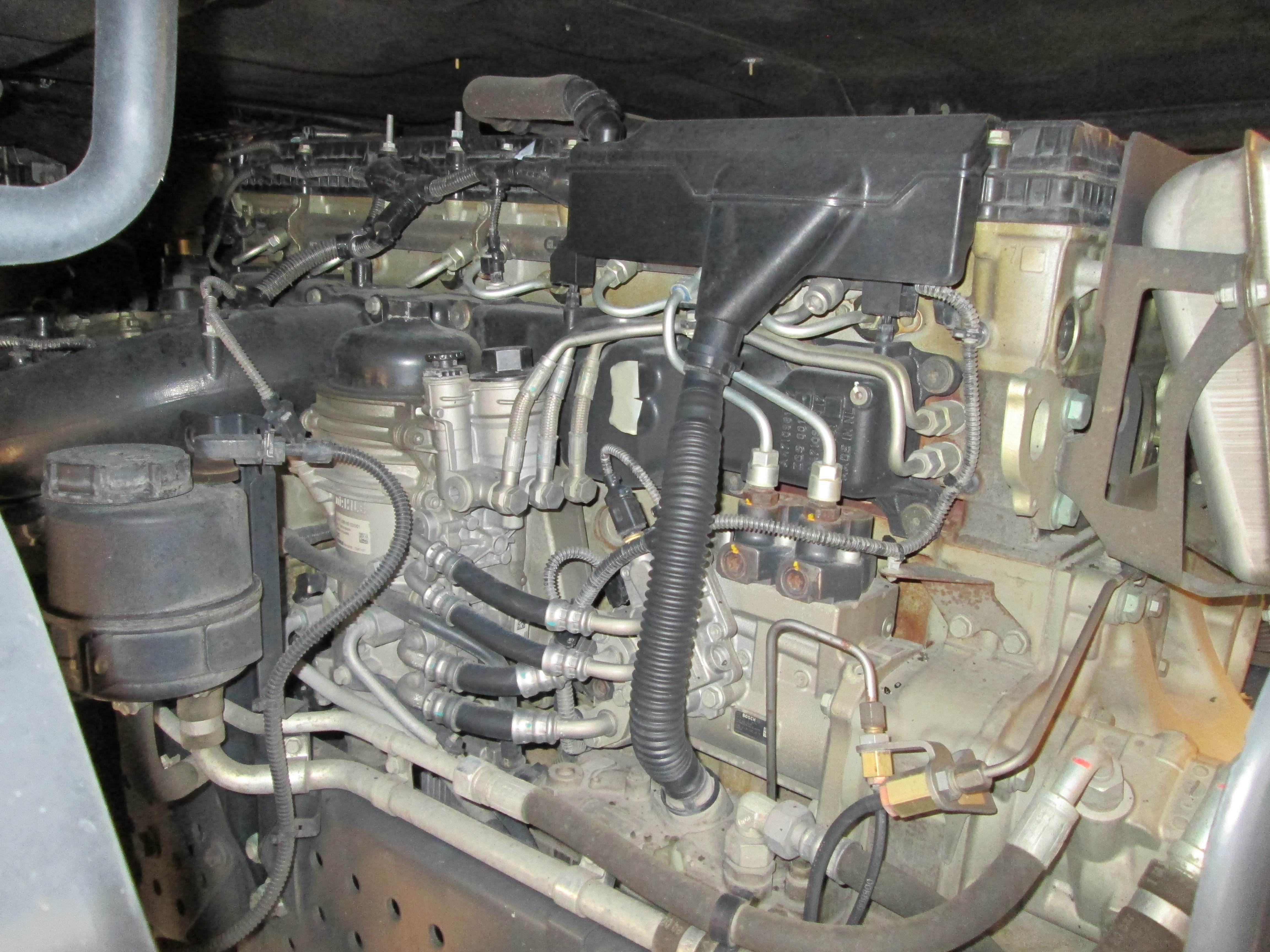 OM 471 engine of a Mercedes-Benz Actros 1845, left "cold" side. 12.8 l displacement. X-Pulse injection system. Various versions: power output range of 310 kW (421 hp) to 375 kW (510 hp) and maximum torque of 2100 Nm to 2500 Nm. One annual maintenance for engine oil change. Service intervals extended to up to 150,000 km. The engines can cover at least 1.2 million km without the need for a major overhaul.